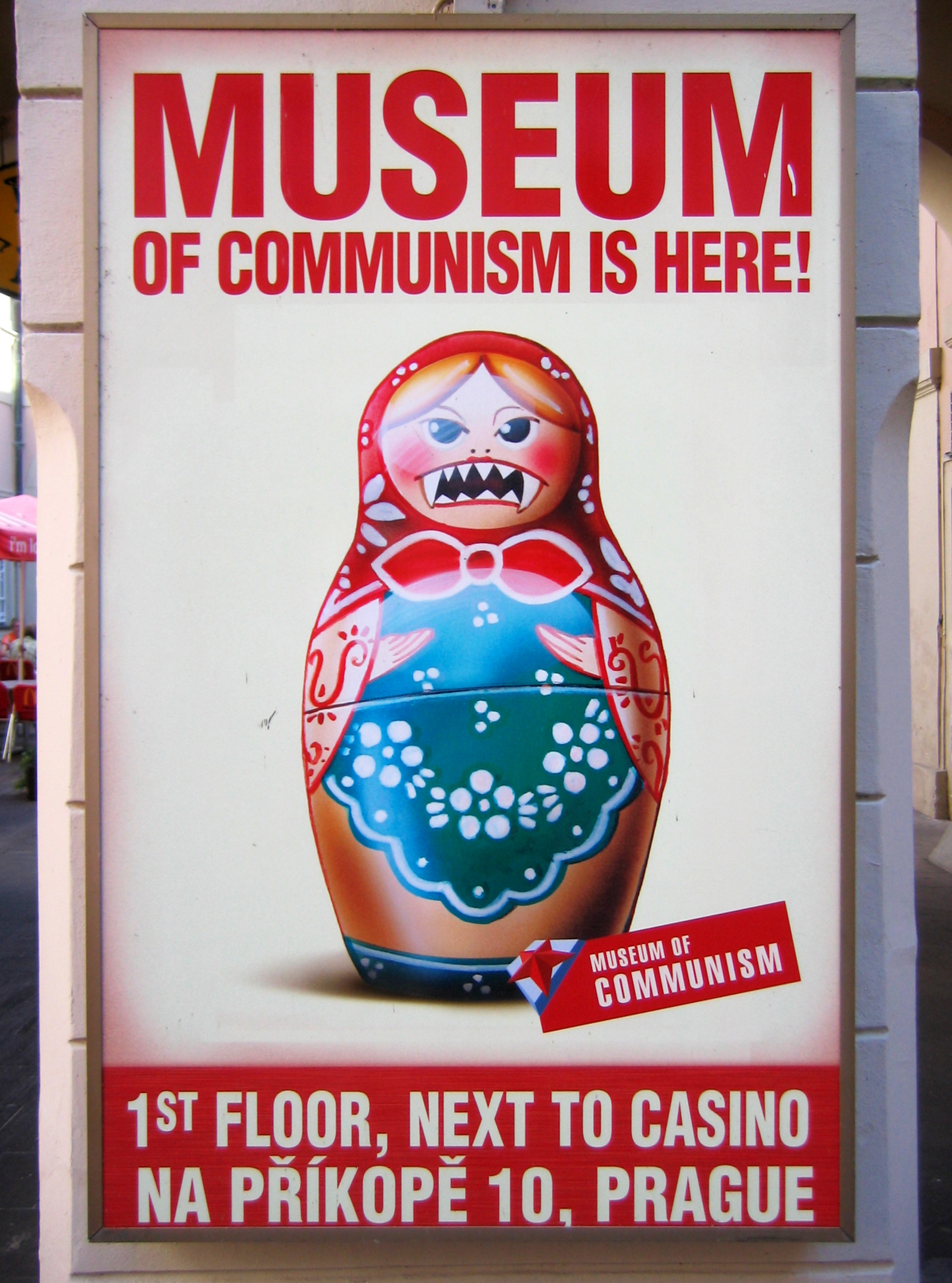 Poster at the entrance to the Museum of Communism in the center of Prague.